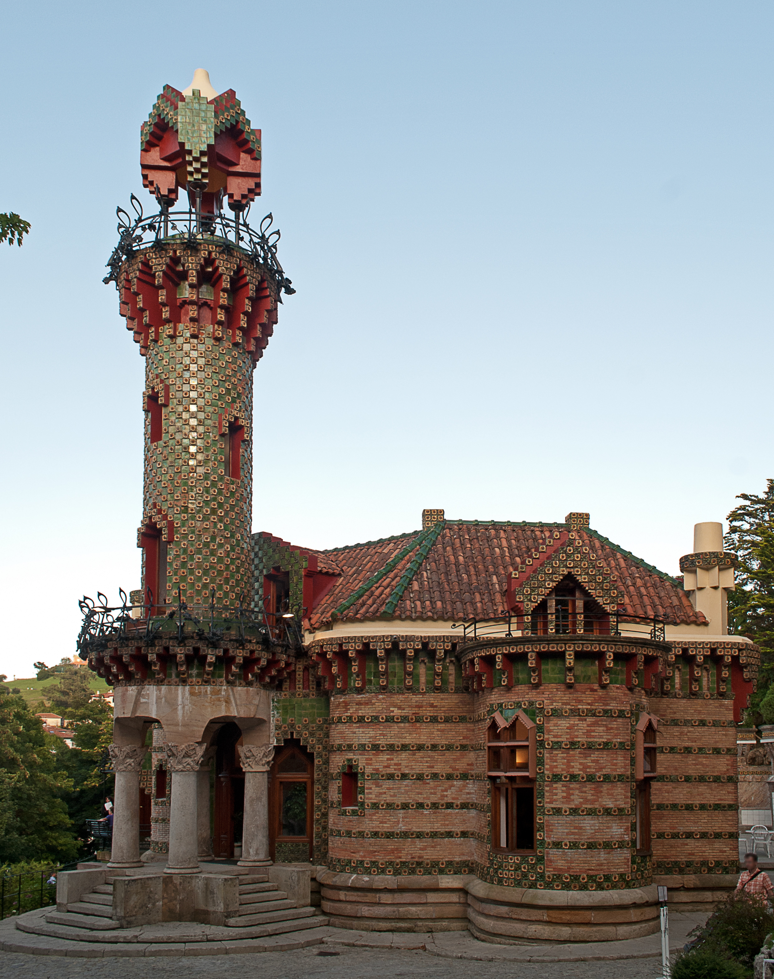 El Capricho (1883-1885) of Antonio Gaudí, in Comillas (Cantabria, Spain)